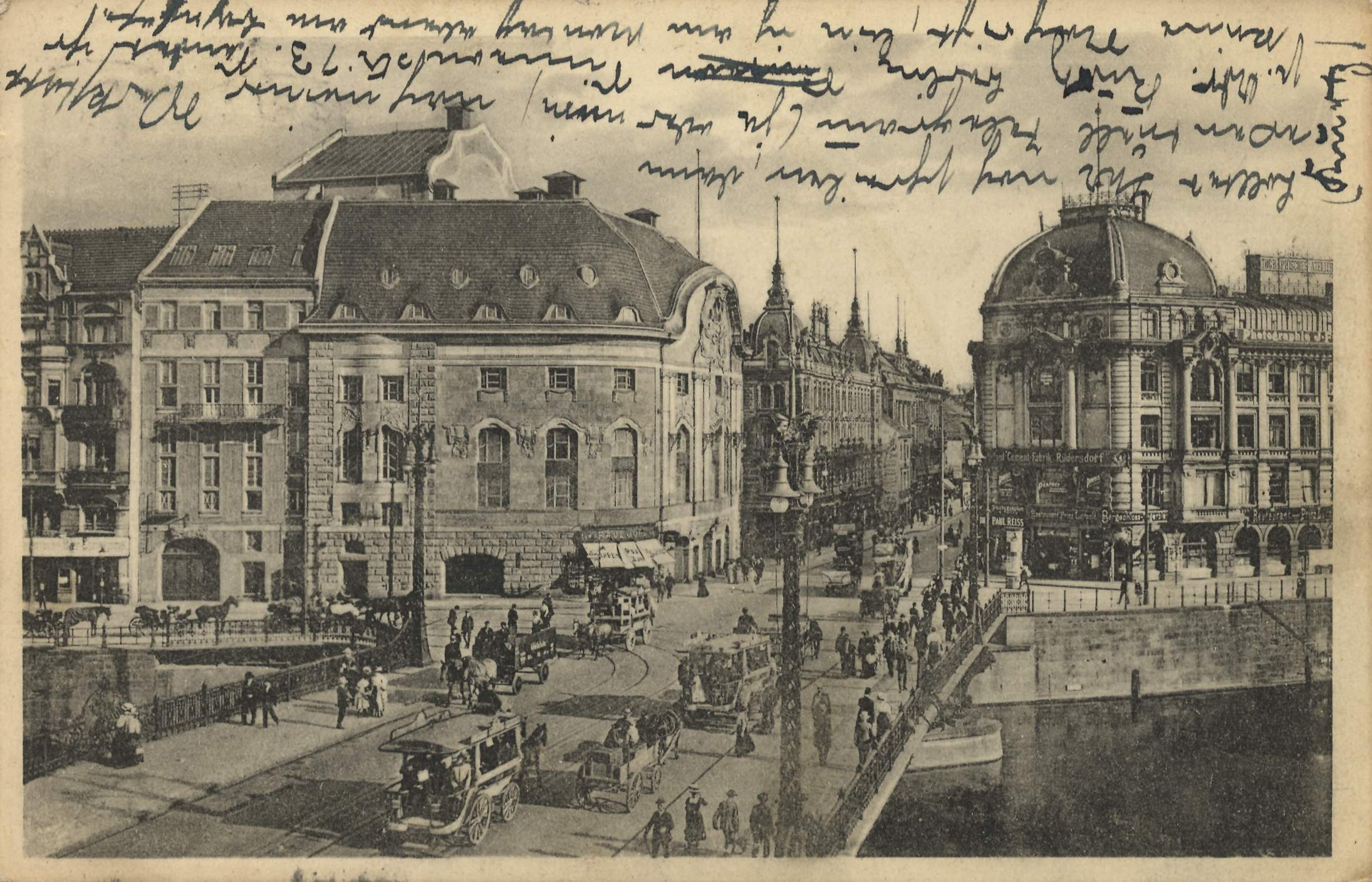 Berlin-Mitte, view from north over the Weidendammer Brücke into the Friedrichstraße, on the left corner the (old) Komische Oper; historic postcard, sent in 1912